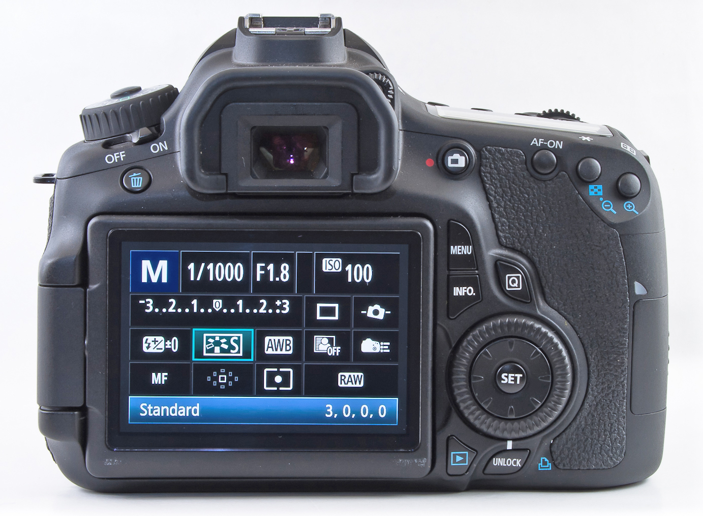 The rear view of a Canon EOS 60D with new designed button structure